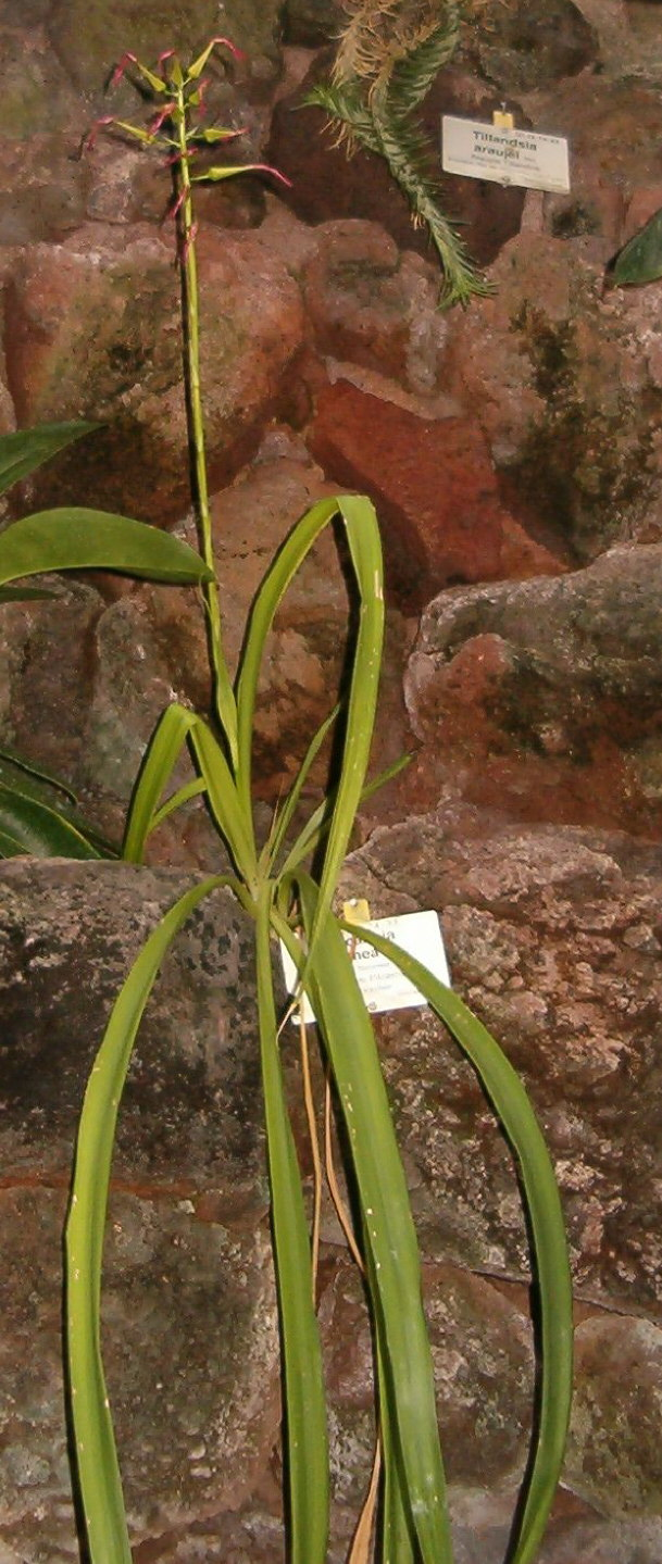 Pitcairnia flammea flamea Location: Botanical Gardens Berlin Dahlem